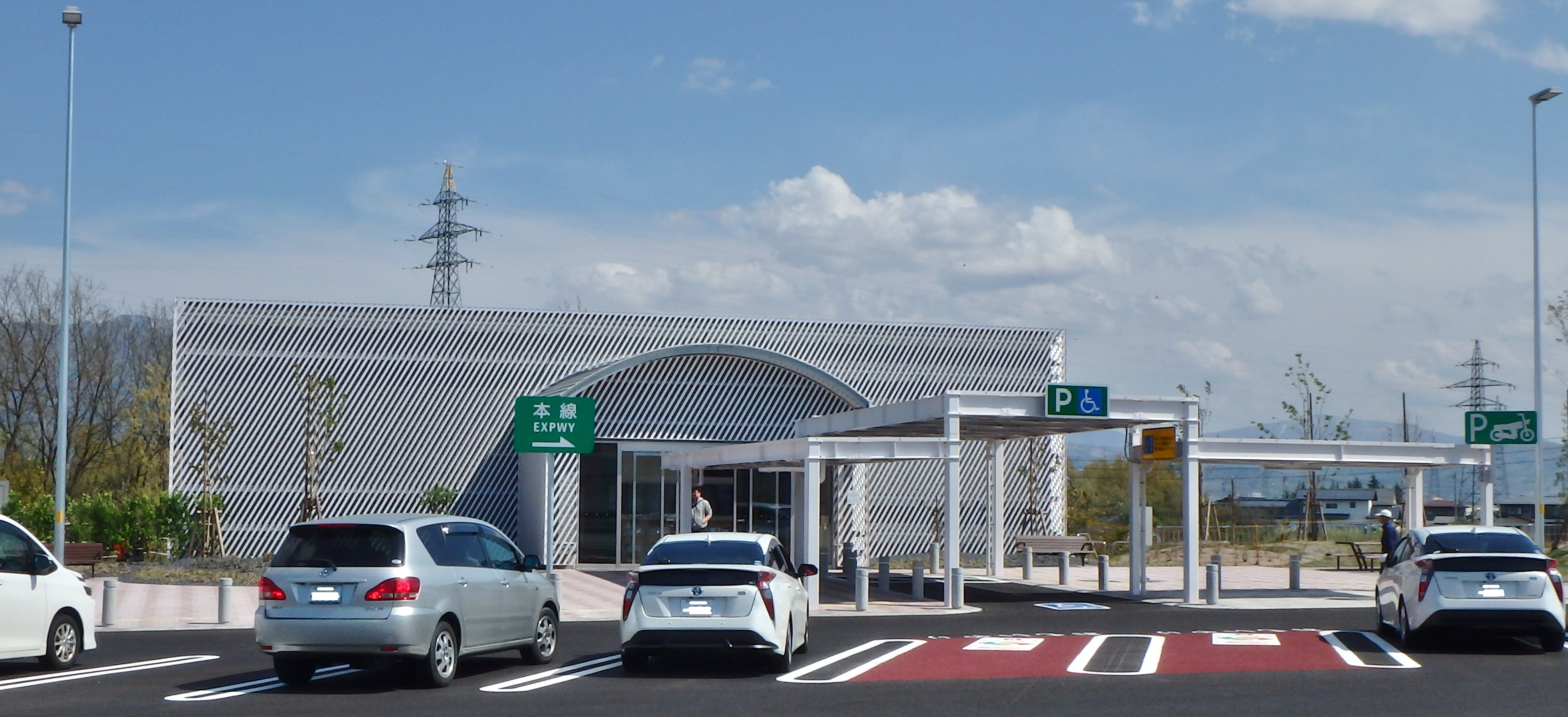 Yamagata Parkig Area, Yamagata Prefecture,Japan